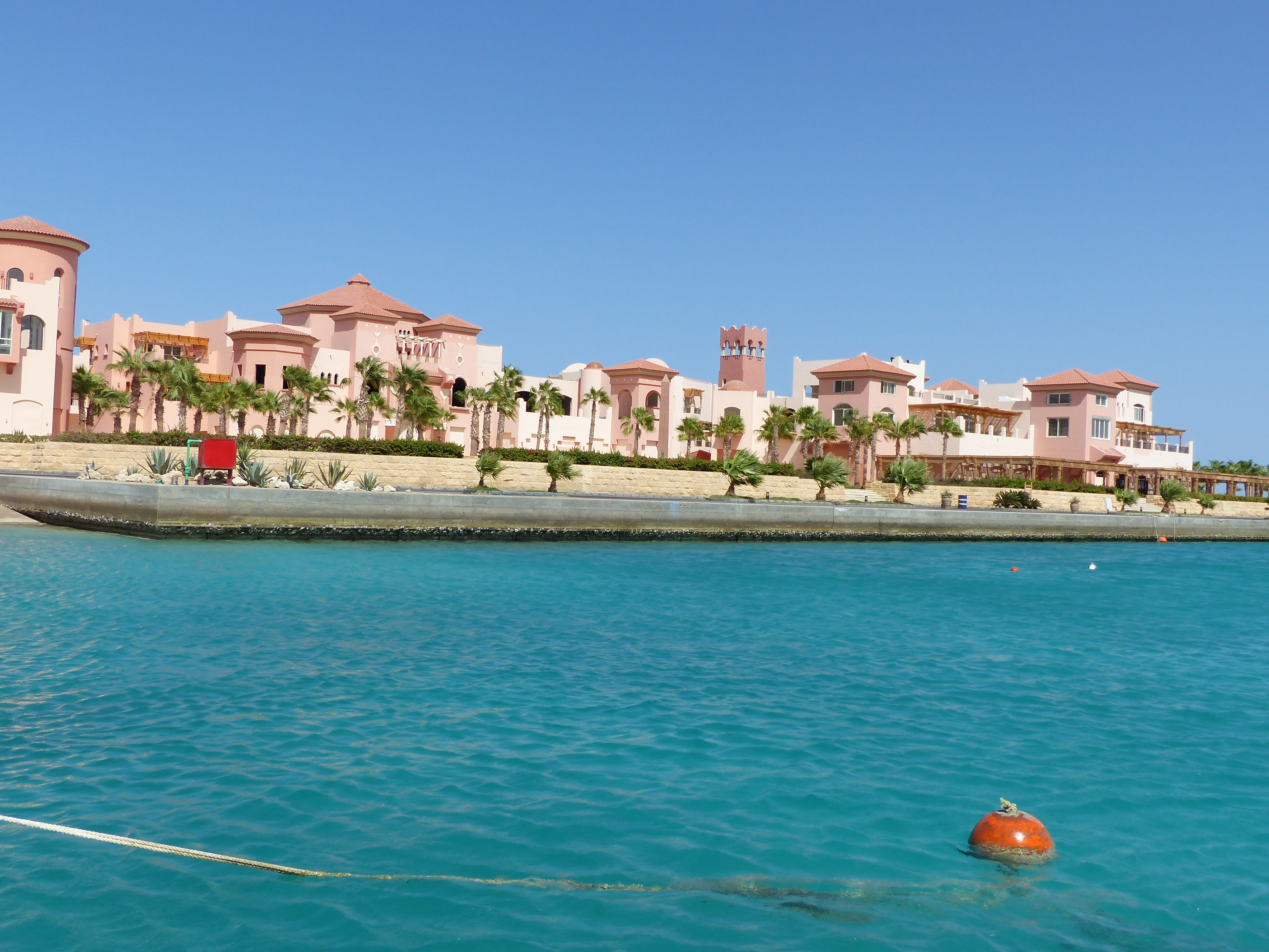 Marina Soma Bay